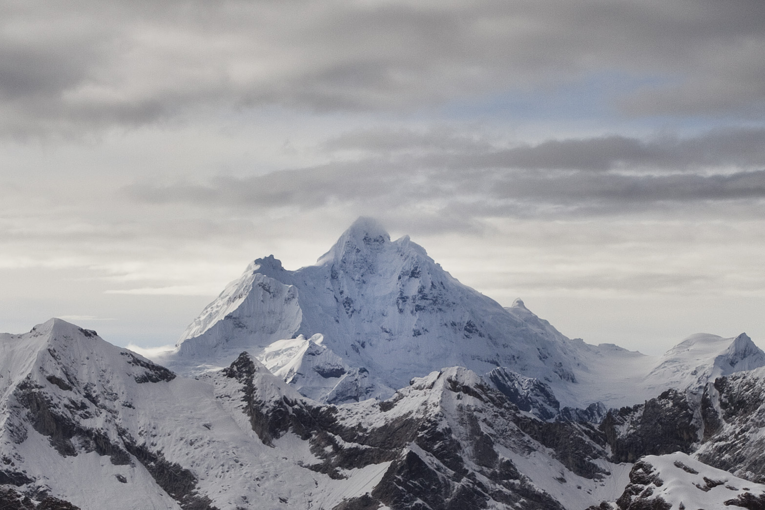 Nevado Huantsán (6395 m) in the Cordillera Blanca mountain range of the western Andes, Peru